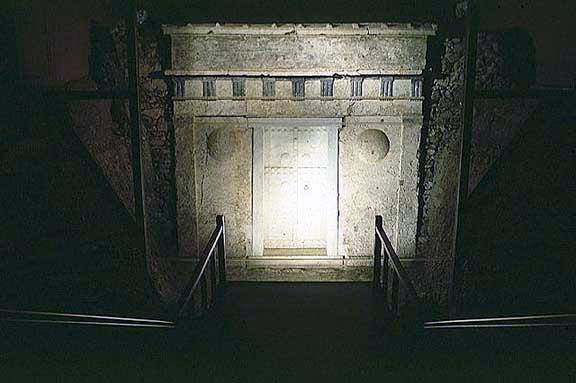 Tomb III, probably belonged to Alexander IV, image from the Royal Tombs, Vergina, Central Macedonia, Greece